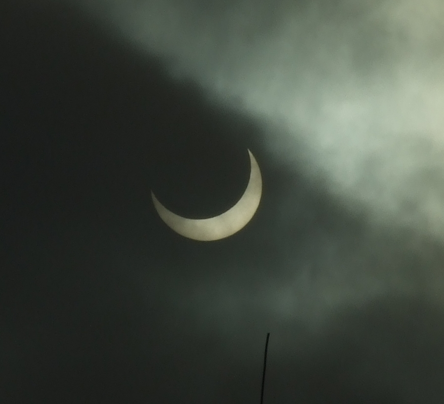 Solar eclipse of 4 January 2011 seen from Poland.